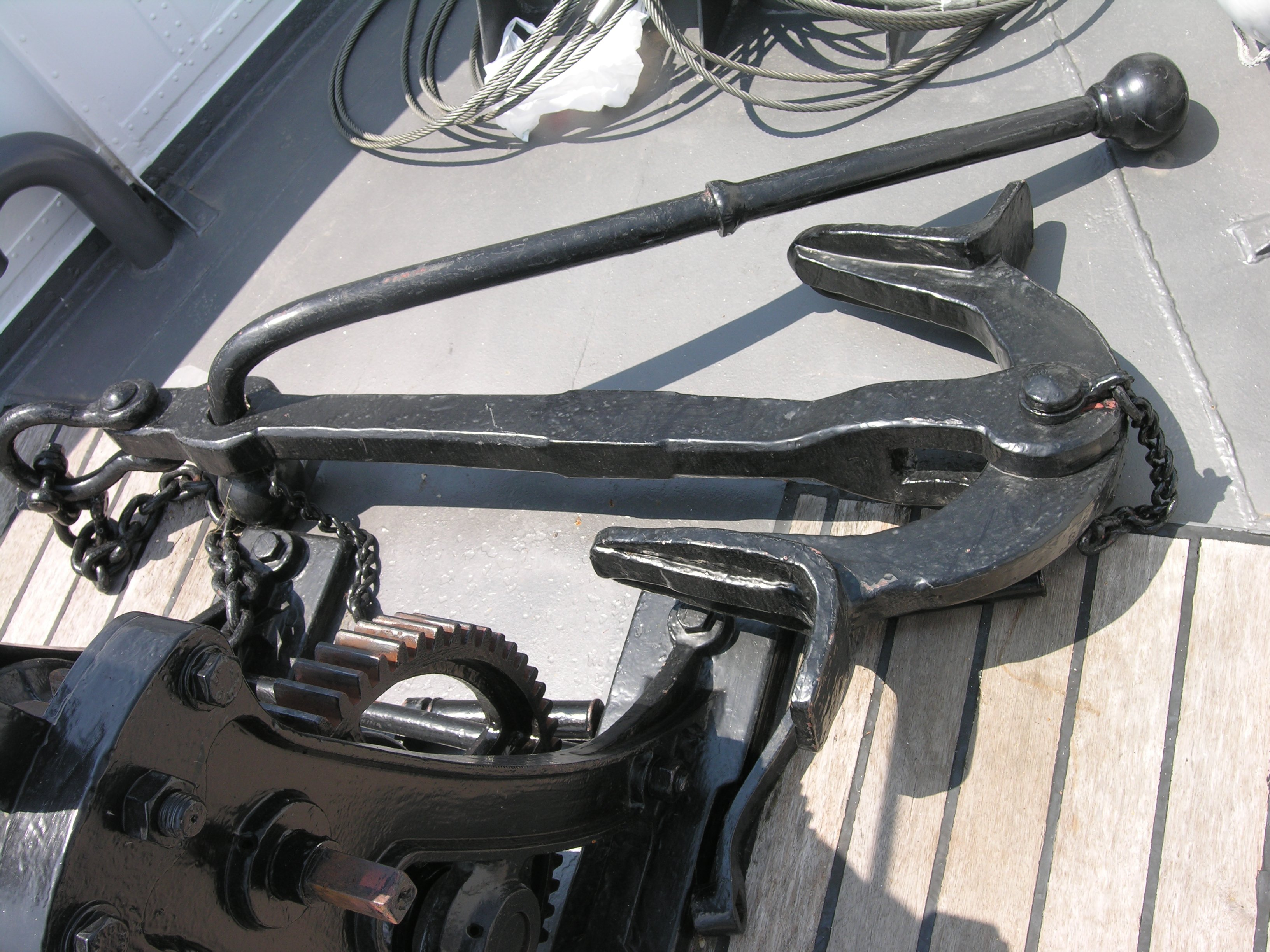 Anchor for the Zurich lake (ship abut 260 t)